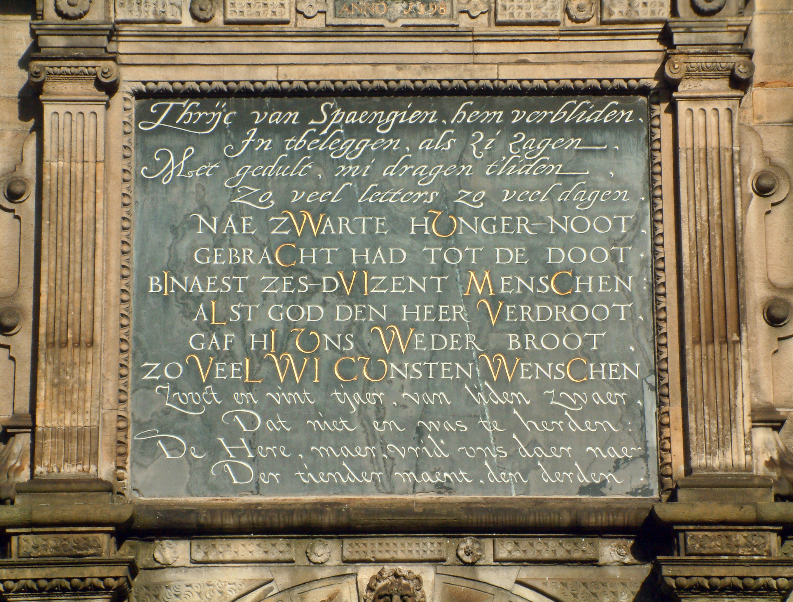 Plaque on the Stadhuis made from the alter taken from the Pieterkerk